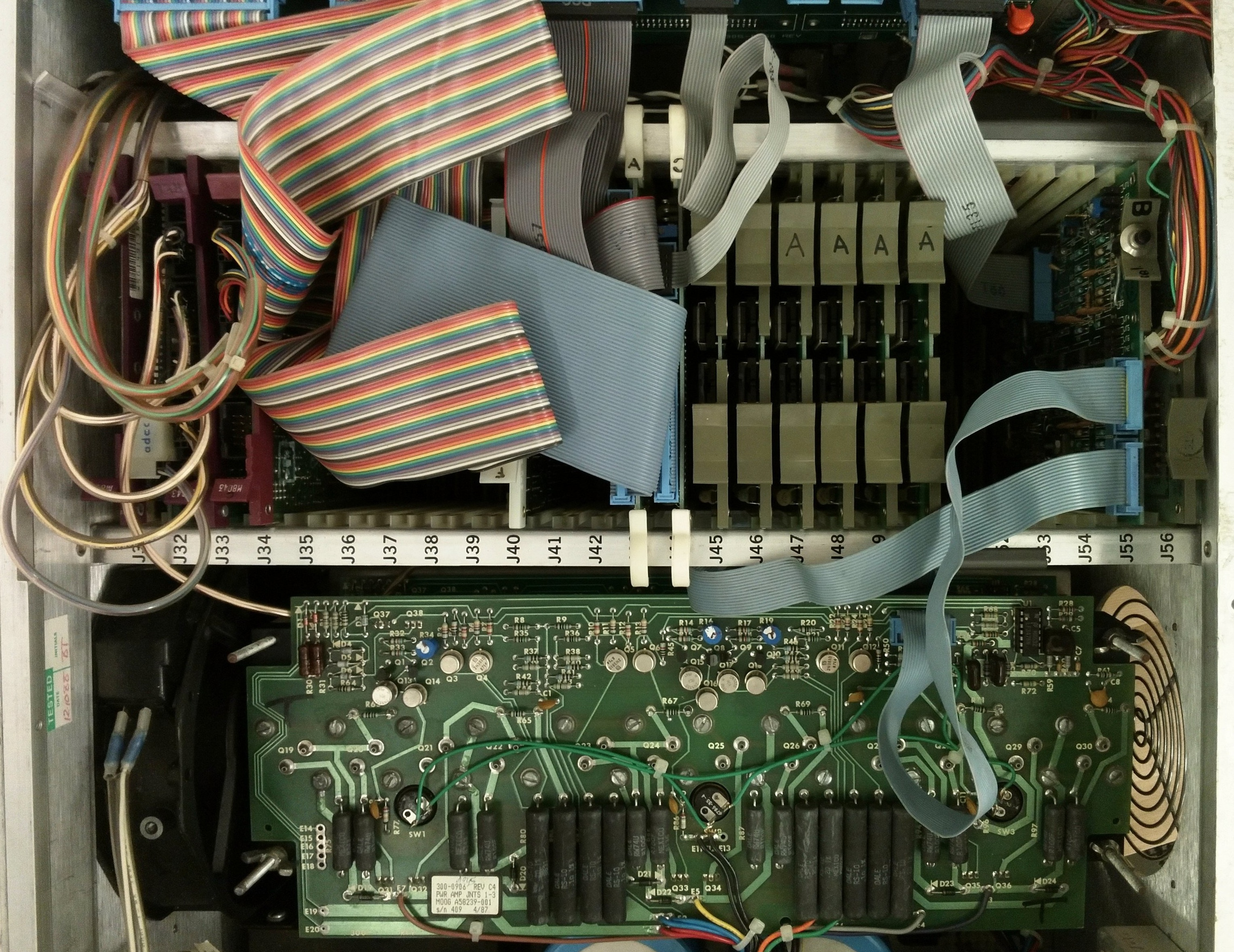 Unimation robot arm controller with one DEC M8192 / KDJ11-A LSI-11/73 processor board (PDP-11 variant) and two DEC DLV11-J (M8043) async serial interface boards.